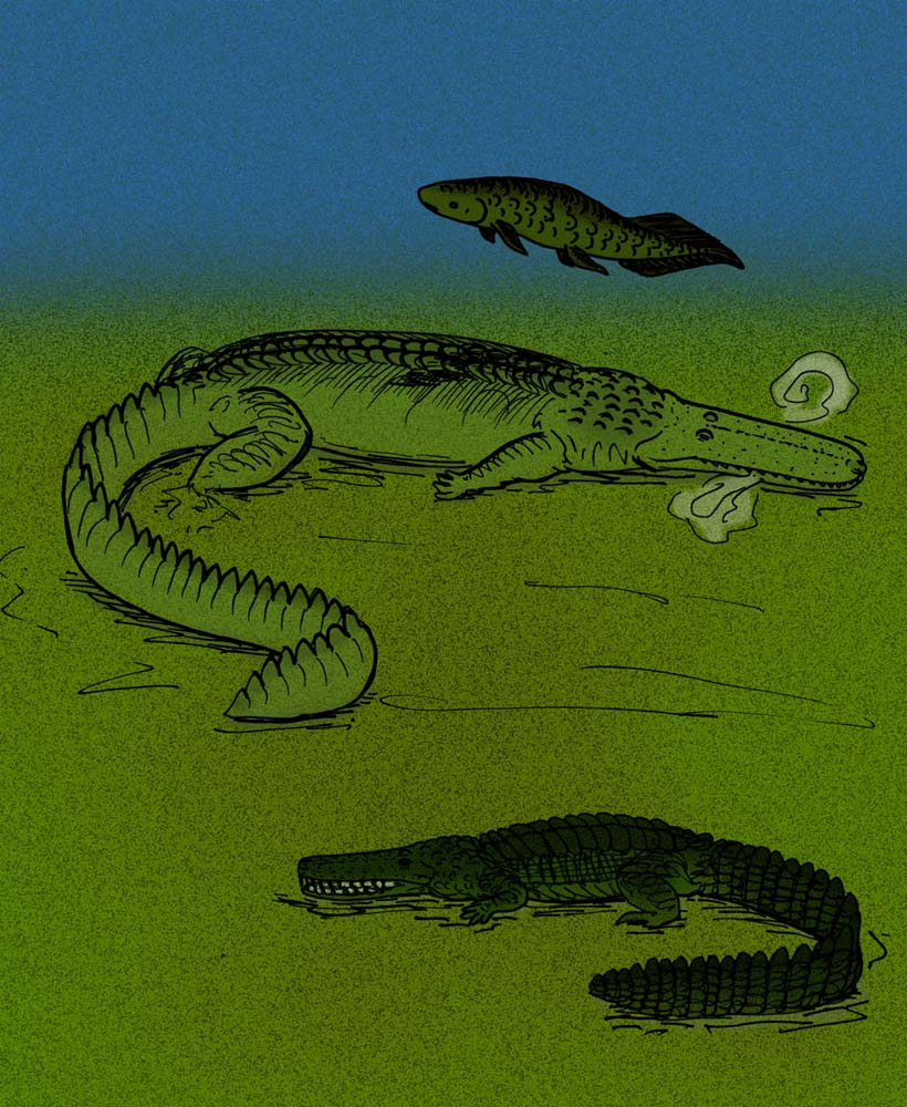 Comparison of the giant ceratodontid lungfish, Retodus tuberculatus with the stomatosuchid crocodilians, Stomatosuchus inermis (center), and Laganosuchus thaumatos, of a lake or riverbottom in Cenomanian Northern Africa. (c) Stanton F. Fink